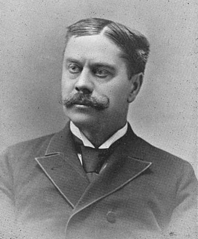 Levi T. Griffin, US Representative from Michigan